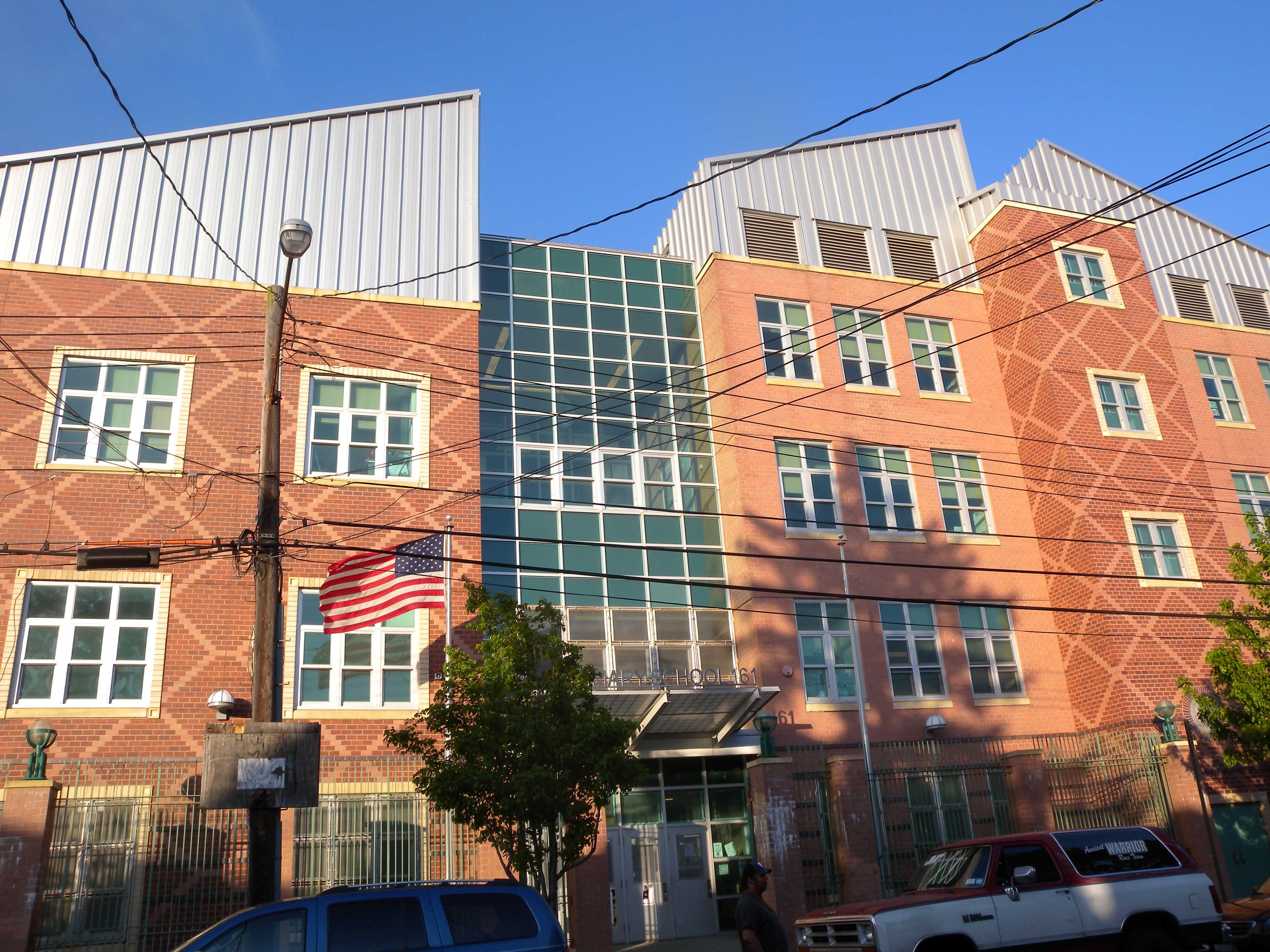 Looking east across 124th Street at PS 161 on a sunny afternoon.